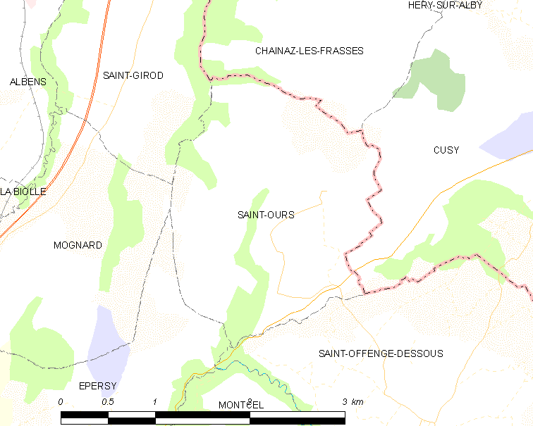 Map of French municipality Saint-Ours